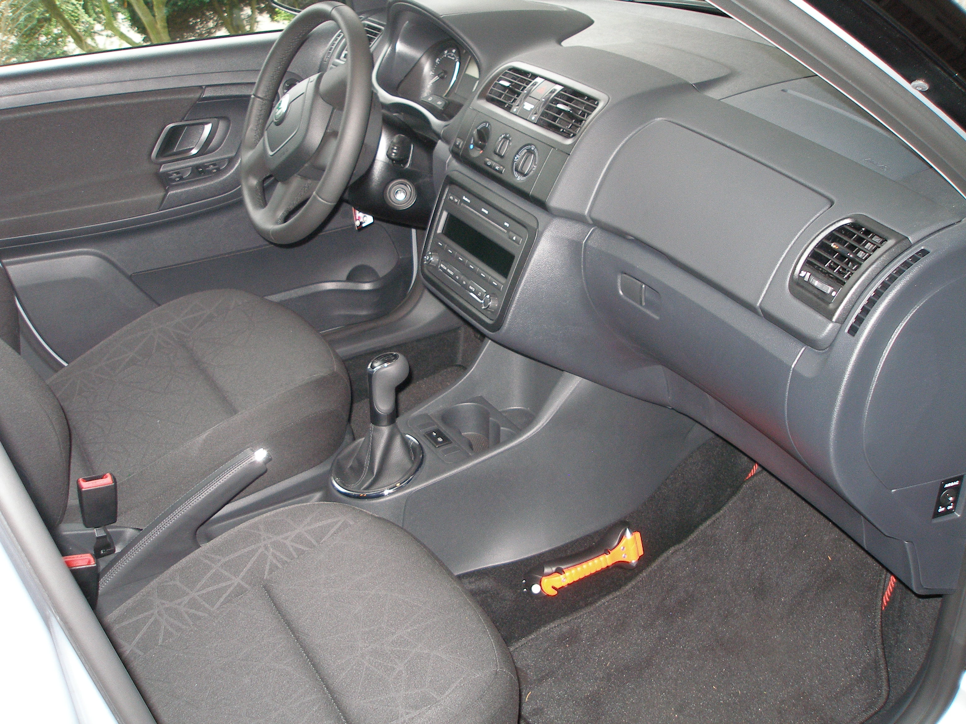 Interior Skoda Fabia II facelift 2010